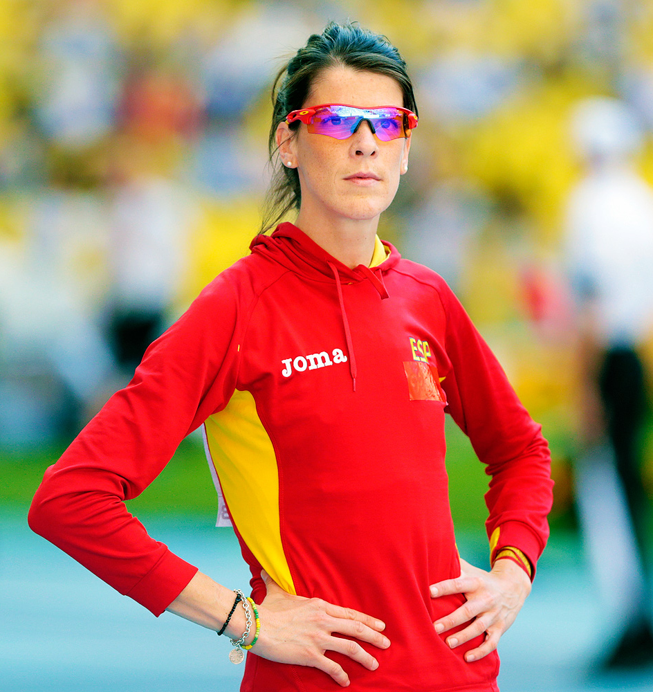 Ruth Beitia on 14th IAAF World Championships in Athletics